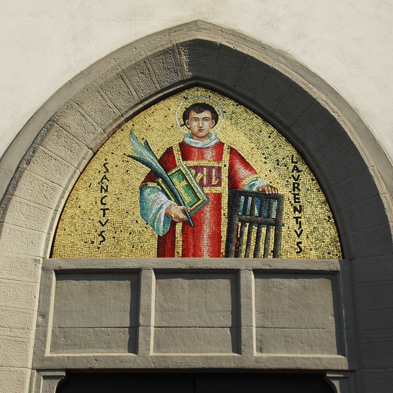 the Church of San Lorenzo at Ponte a Greve, Florence, Italy. Facade: Lunette above the Portal (Mosaic: Saint Lorenz with his grill).